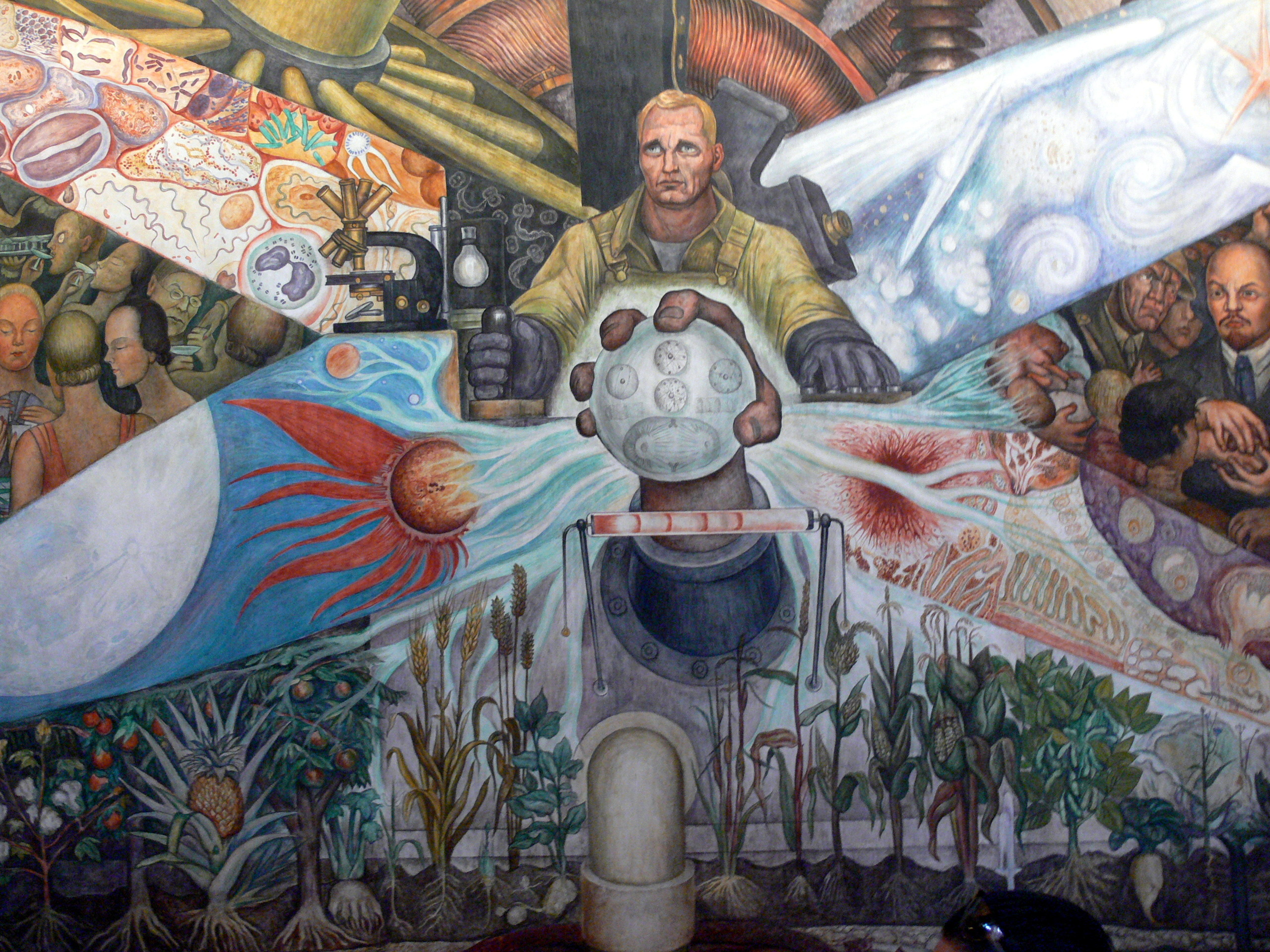 Mexico City. Palacio de Bellas Artes: Mural "El Hombre en la encrucijada" ( 1934 ) by Diego Rivera (part).